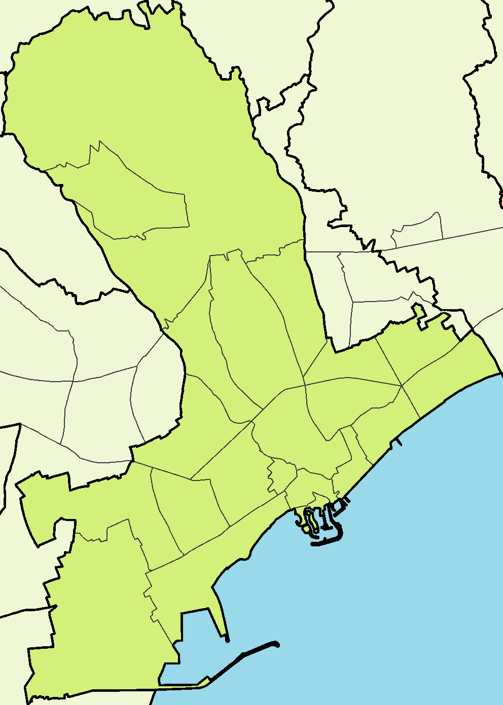 Limassol Municipality with quarters.